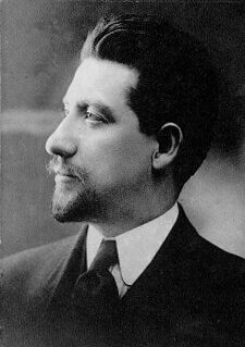 Carlo Tresca (1879-1943) was an Italian-born American anarchist, newspaper editor, and labor agitator.